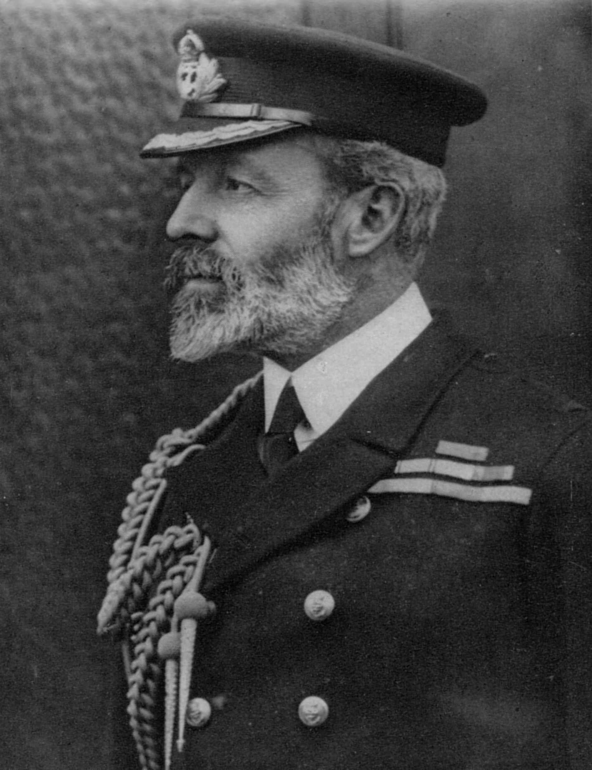 British admiral Sir Christopher Cradock (1862-–1914)